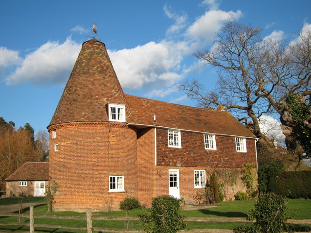 Leacon Hall Oast. Single round kiln oast house. Cowl replaced with weather vane.